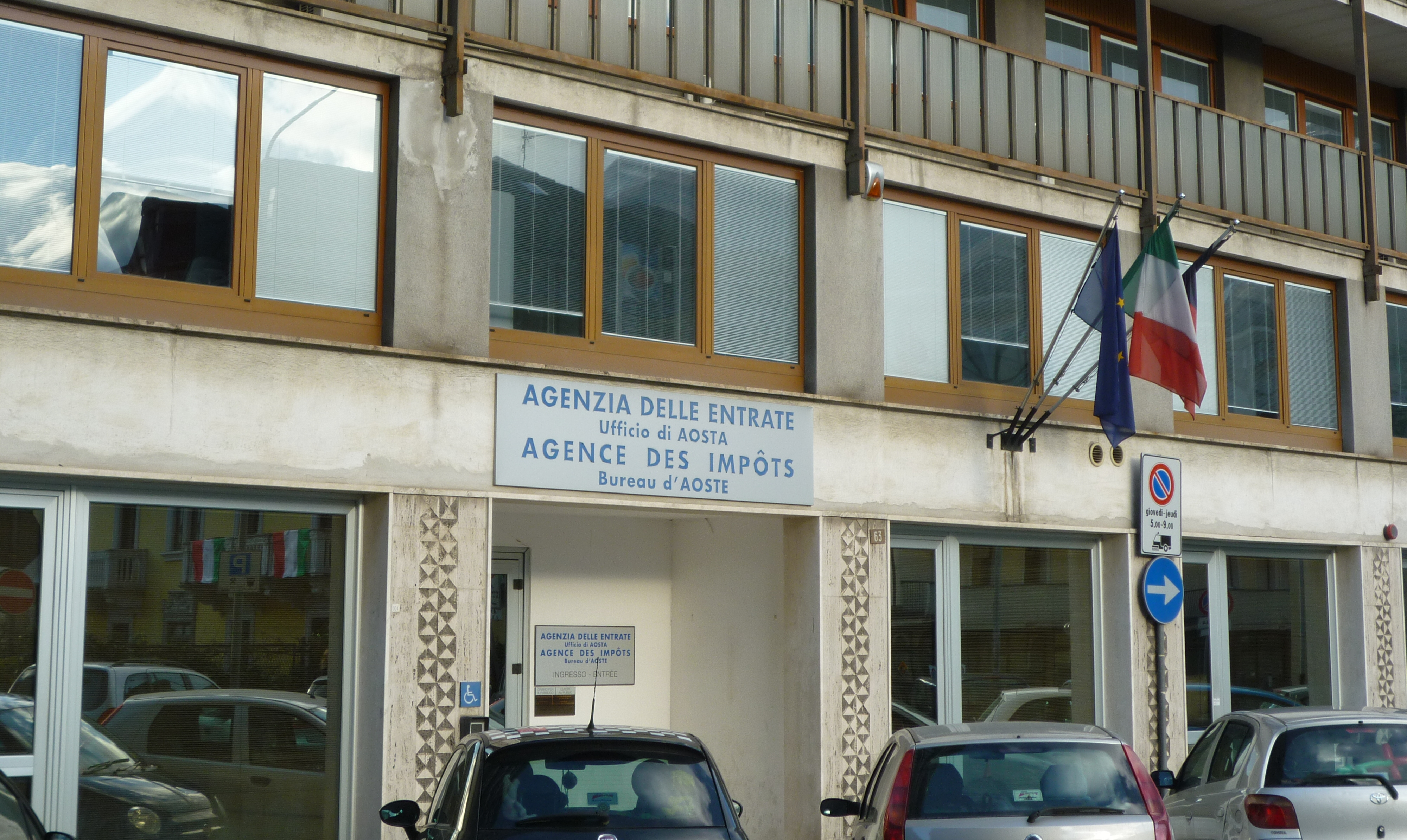 Agence des impôts à Aoste (Italie)